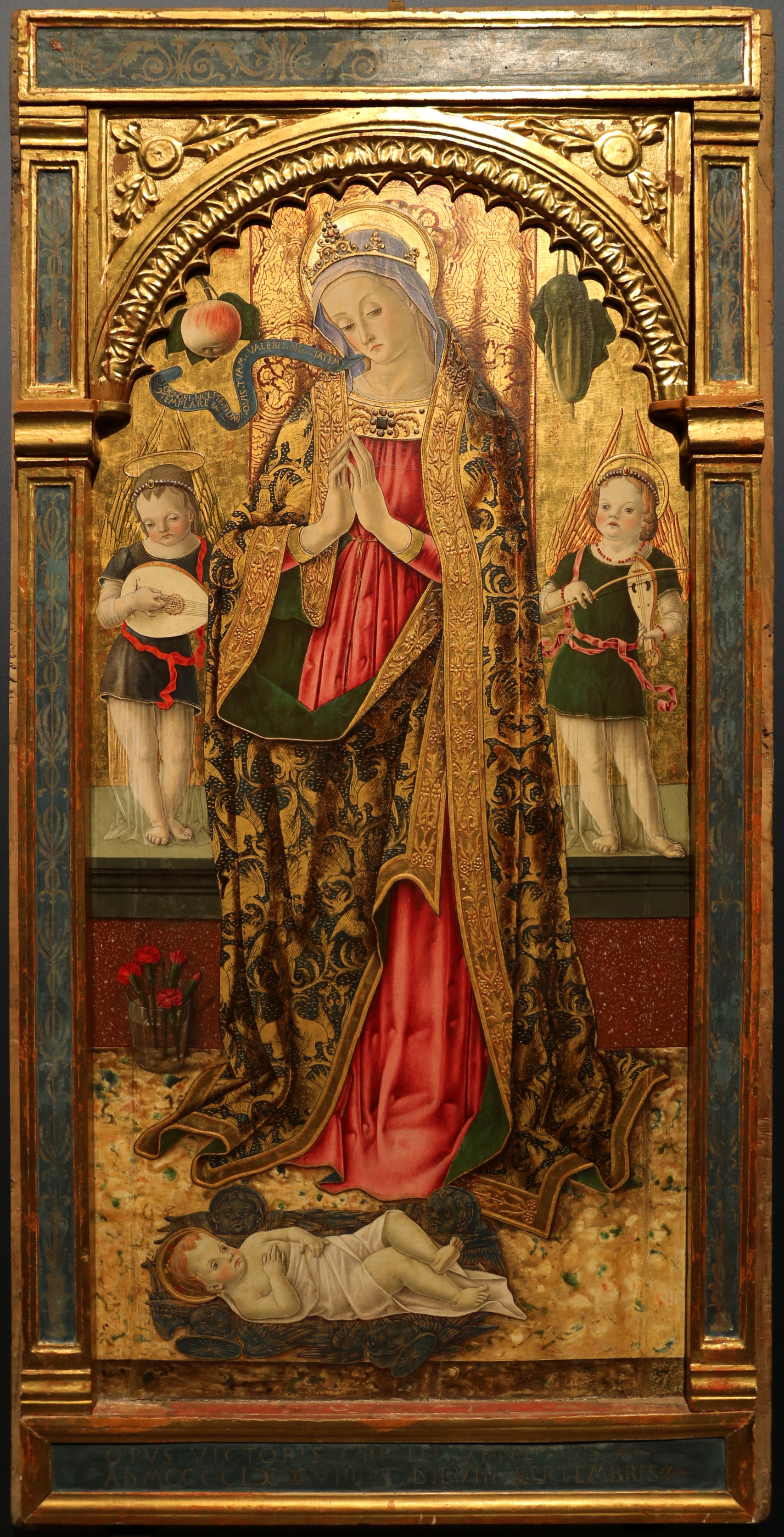 Falerone Madonna by Vittore Crivelli